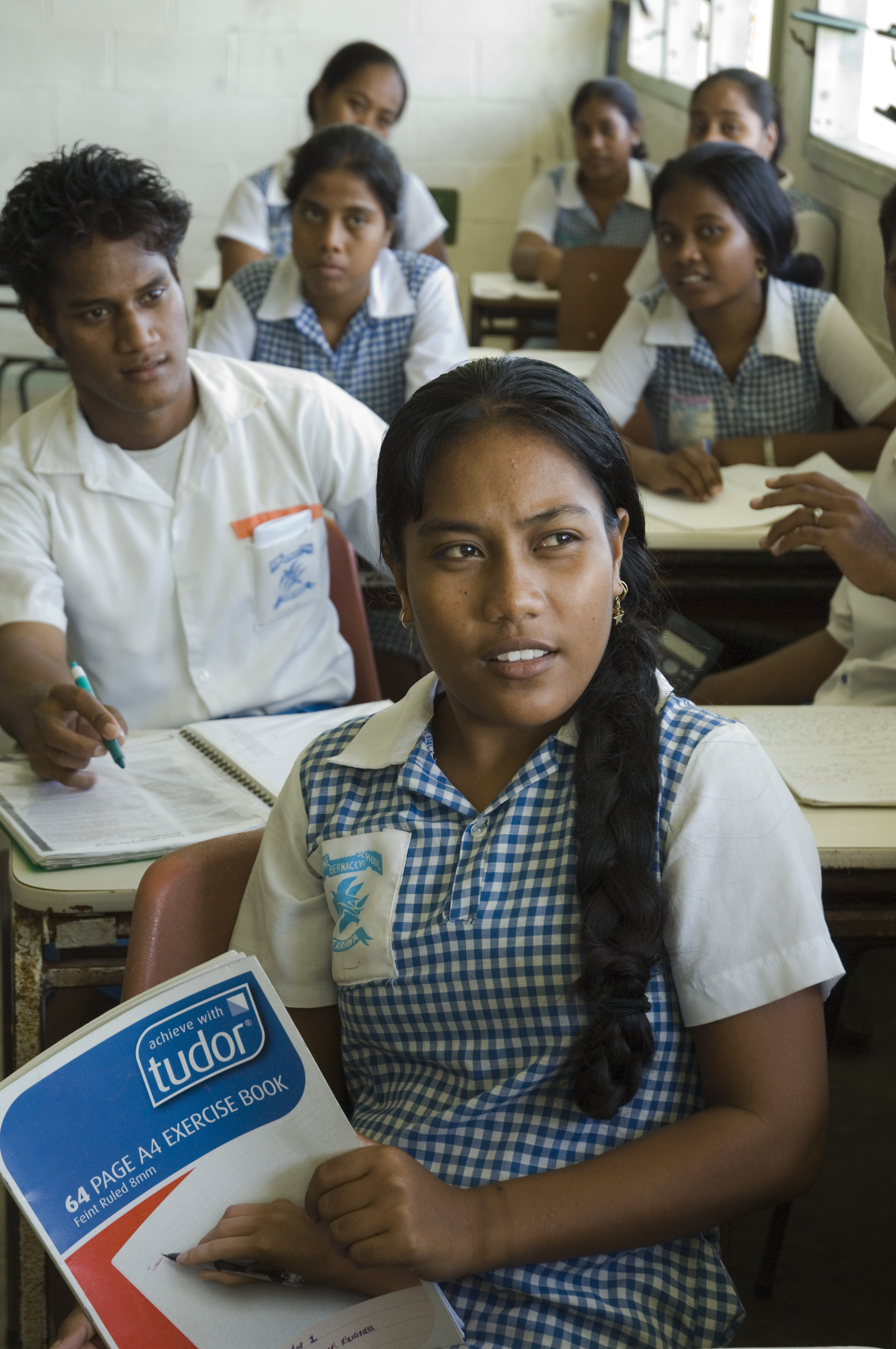 Secondary School students in Bikenibeu. Photo: Lorrie Graham for AusAID. To request copyright use and access to hi-res versions of this photo